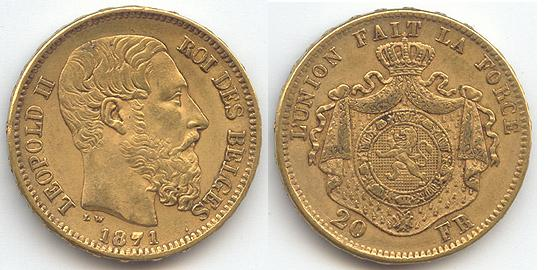 20 Belgian francs coins in gold of 1871, with the portrait of King Leopold II on obverse